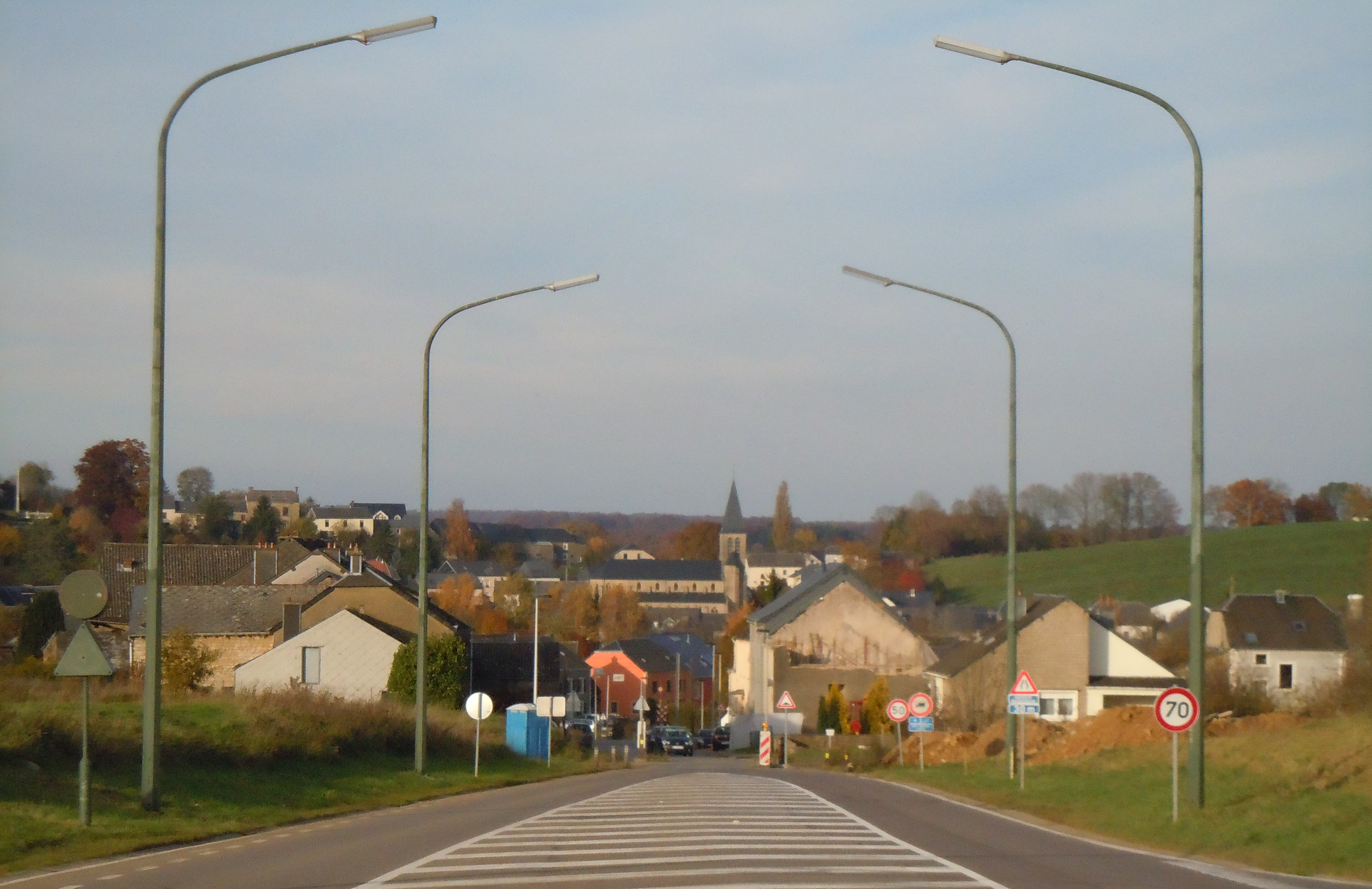 Southern view of Sterpenich, Belgium.